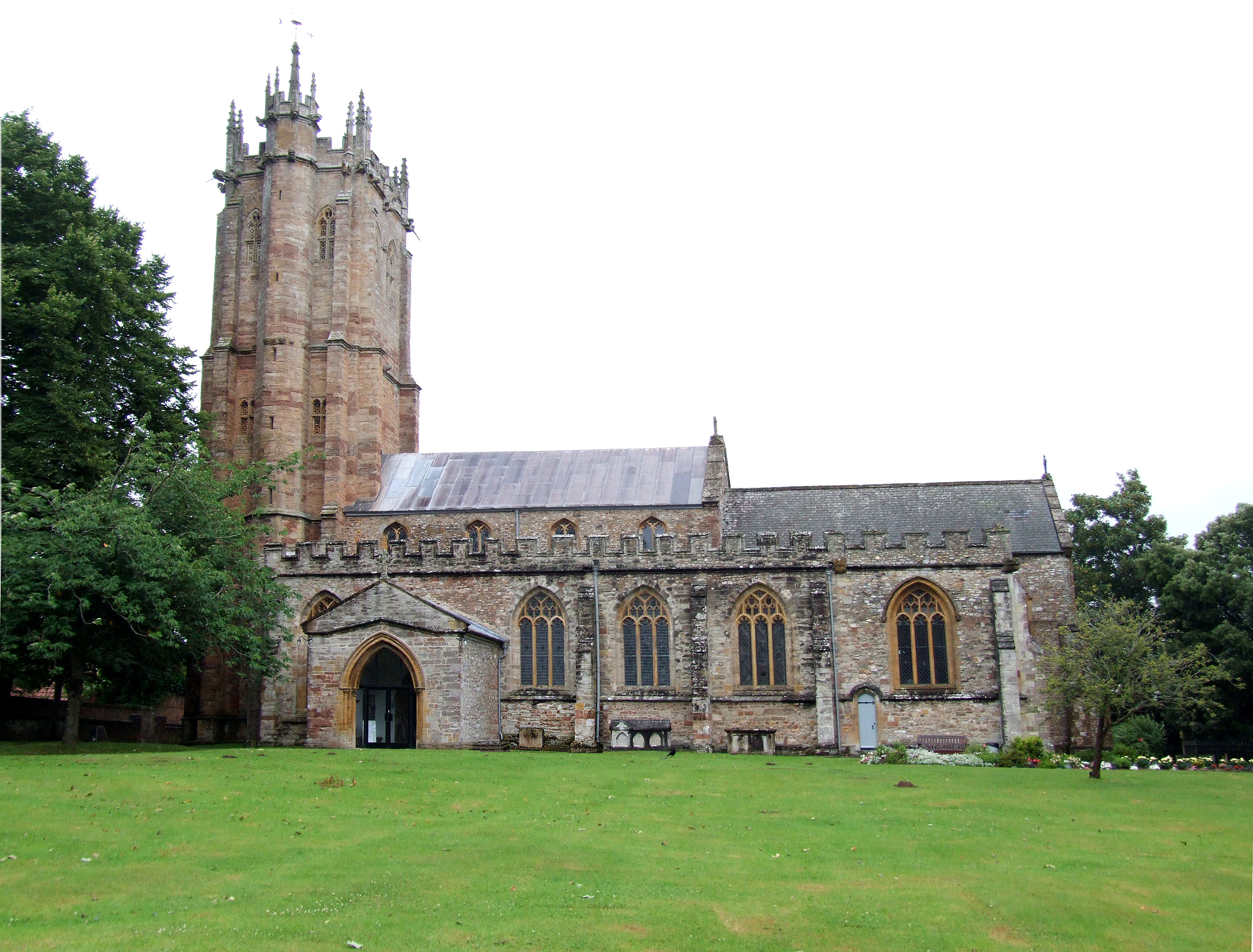 Within the church is an impressive monument to Sir John Popham, one-time Lord Chief Justice of England and Privy Councellor to Queen Elizabeth I. There's a photo of it here.